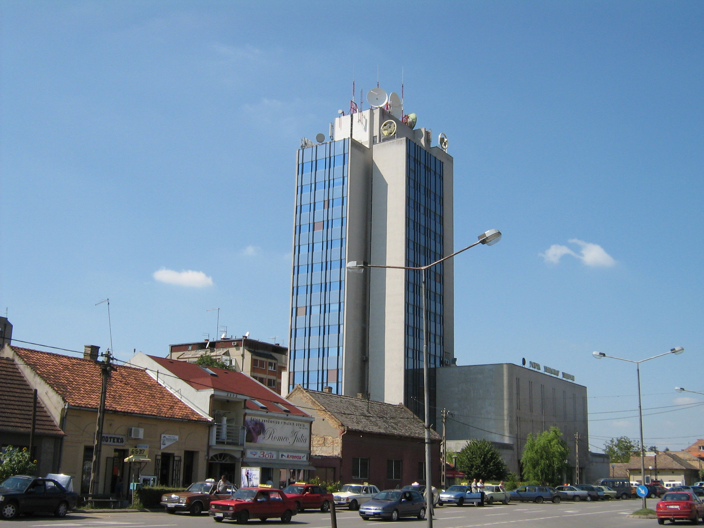 Postoffice building in Pančevo